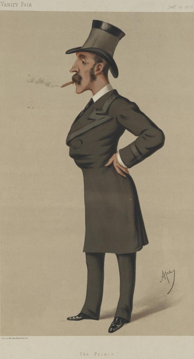 A portrait from the Welsh Portrait Collection at the National Library of Wales. Depicted person: Owen Lewis Cope Williams – British politician